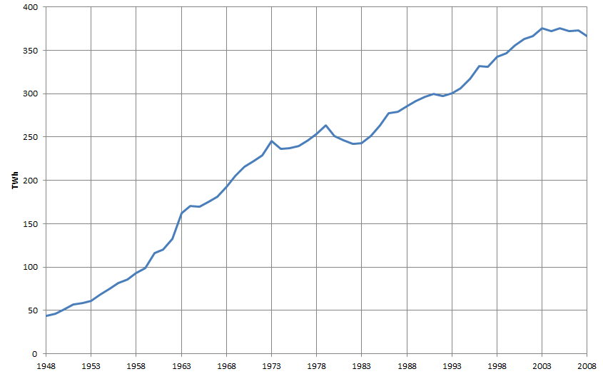 UK Historical Net Electricity supplied 1948 to 2008